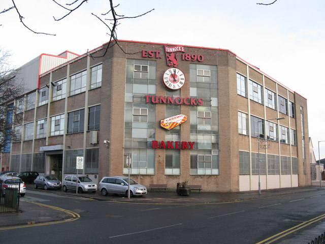 Tunnock's Bakery Among others, home of Tunnock's Caramel Wafers and Tunnock's Teacakes, both depicted on the front of the bakery.